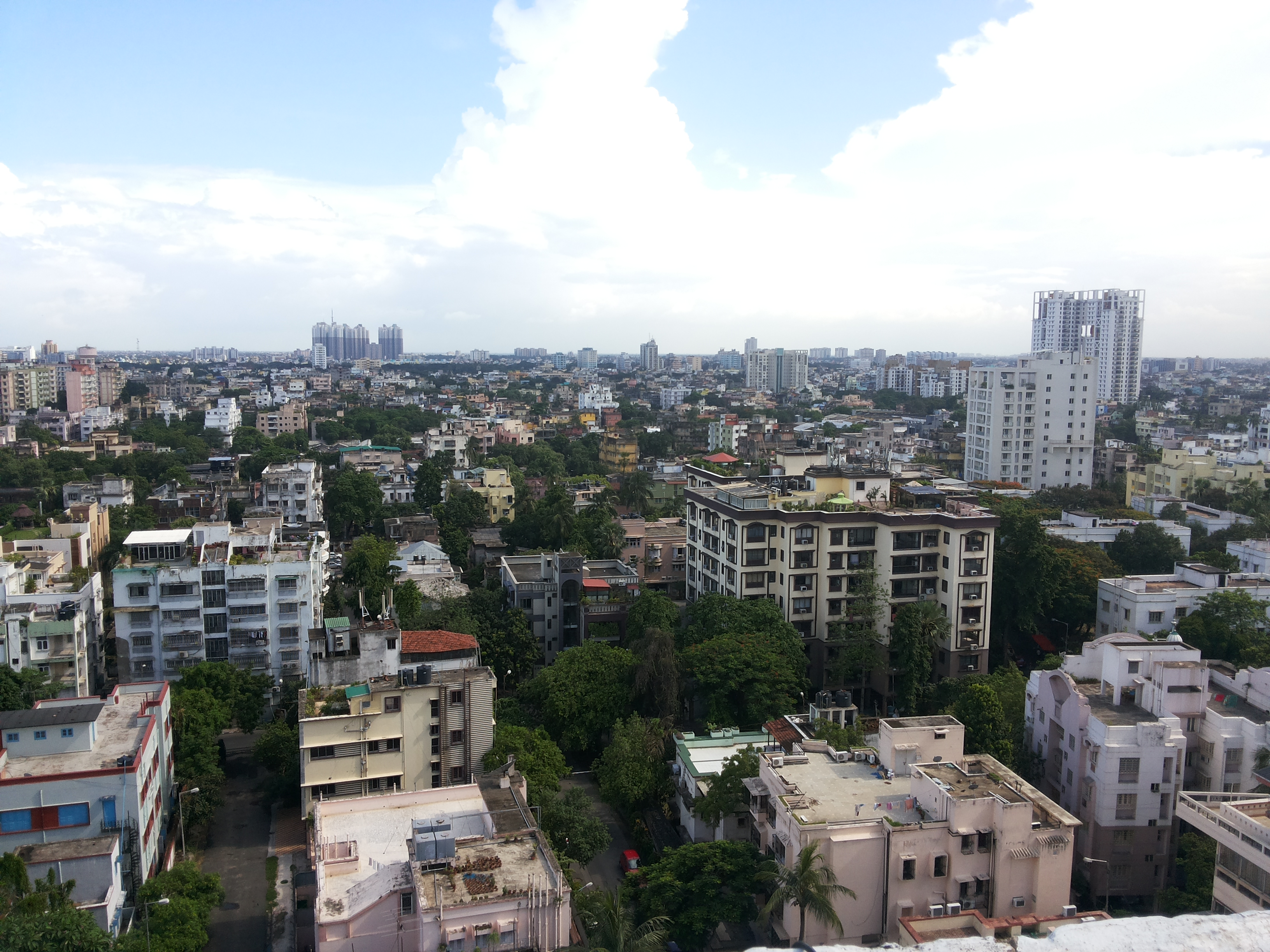 The Kolkata skyline (from atop Naba Kailash Apartments, Ballygunge Circular Road, Kolkata)